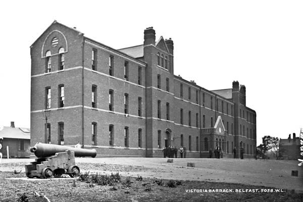 Photo of Victoria Barracks, Belfast